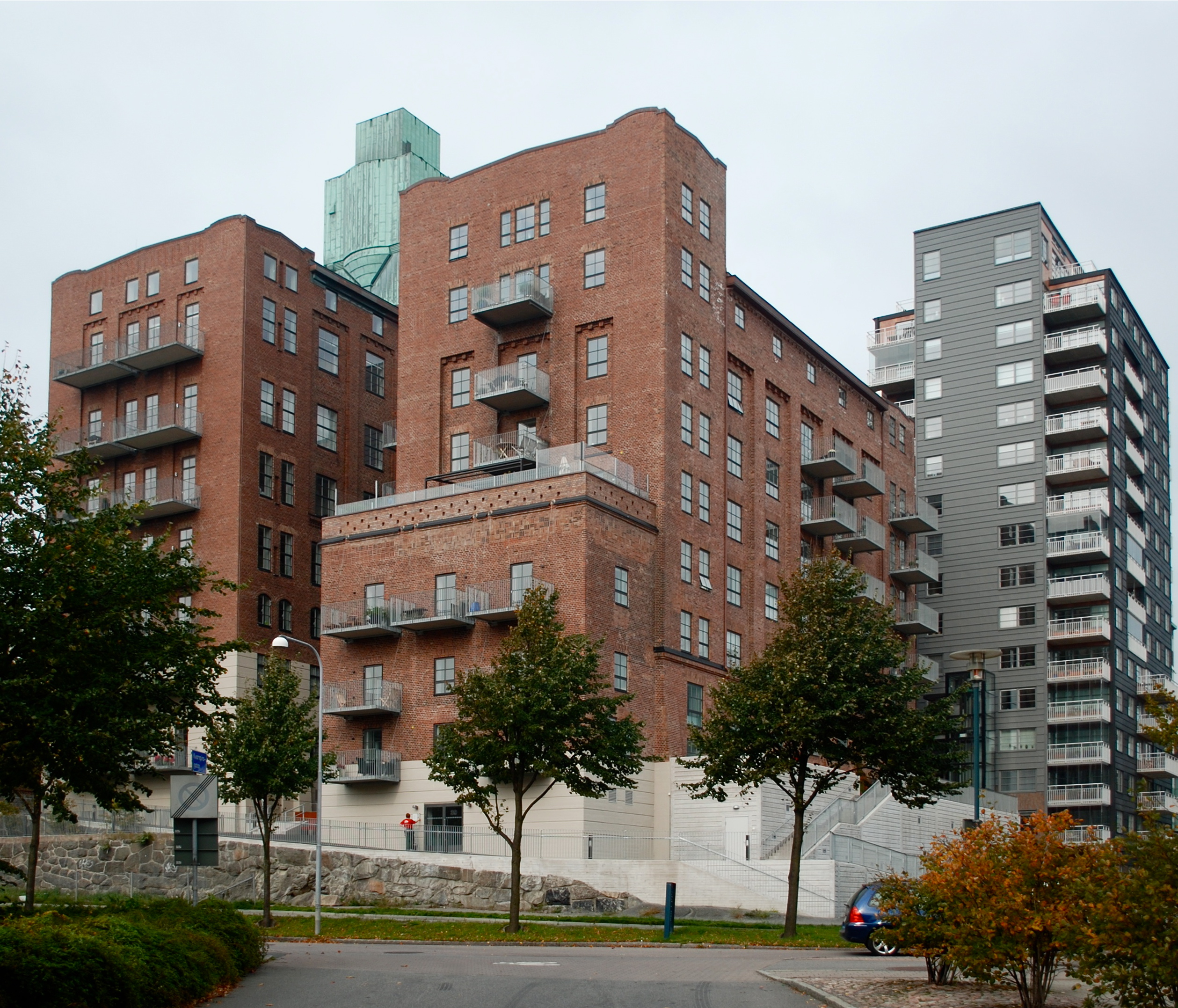 Juvelkvarnen. A historic mill in Gothenburg, converted to apartments.